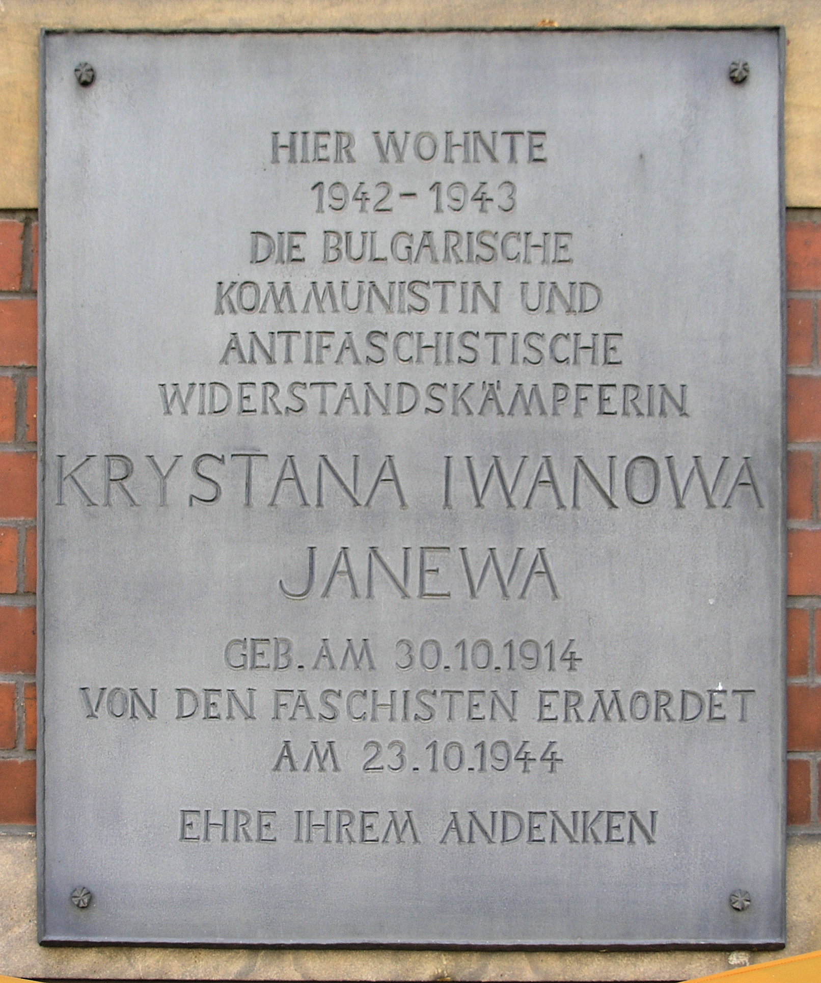 Memorial plaque, Krystana Iwanowa Janewa, Albrechtstraße 14, Berlin-Mitte, Germany